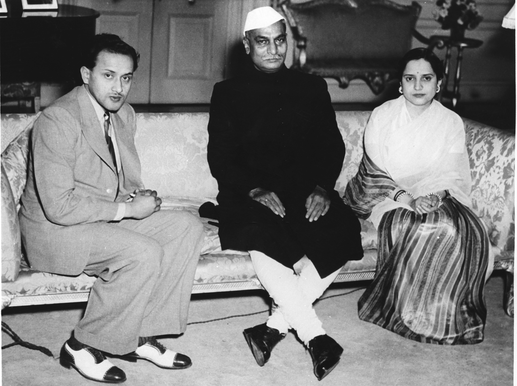 Dr. Rajendra Prasad, President of the Indian Republic with Maj. Gen. and Mrs. Bijoya Shumshwere Jung Bahadur Rana of Nepal when they called on him at Government House, New Delhi during their visit to the capital.